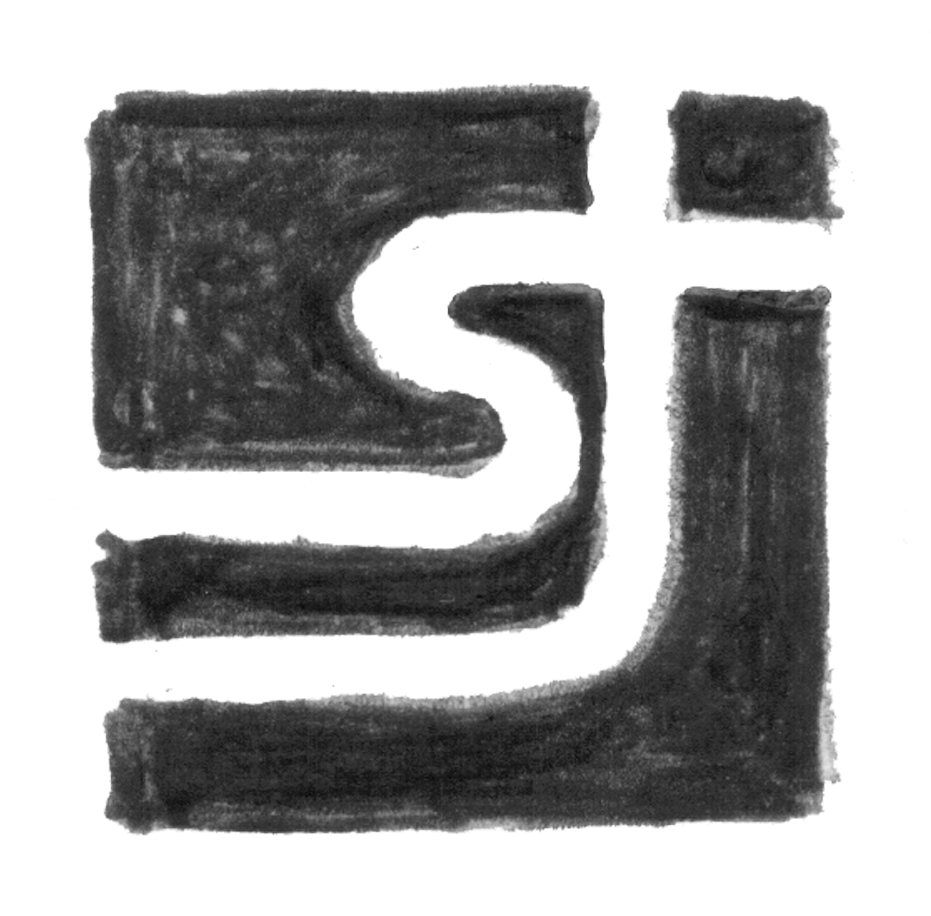 Graphic image of Joyce Ellen Scott's Potter's Mark.